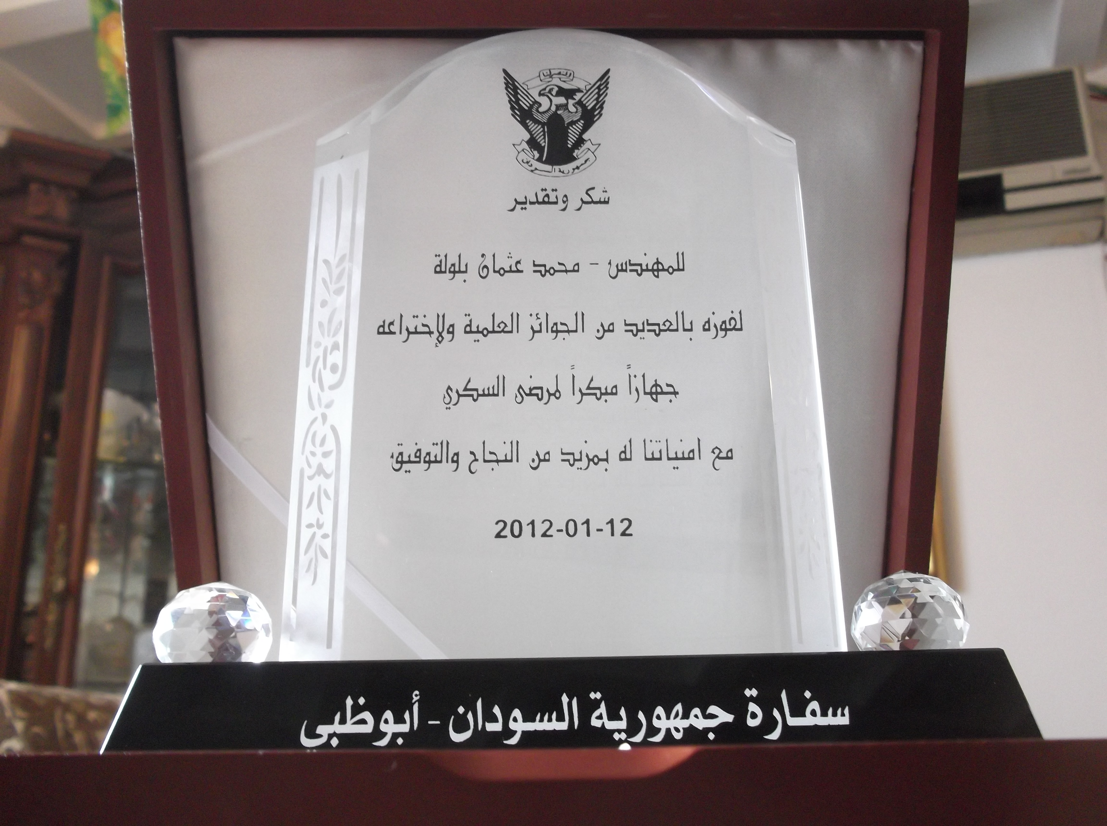 Honor by the Sudanese Ambassador / Ahmed alsadeeq Abdulhai – Sudan Ambassador in UAE – On celebrations of Sudan's 56th Independence Day.2012